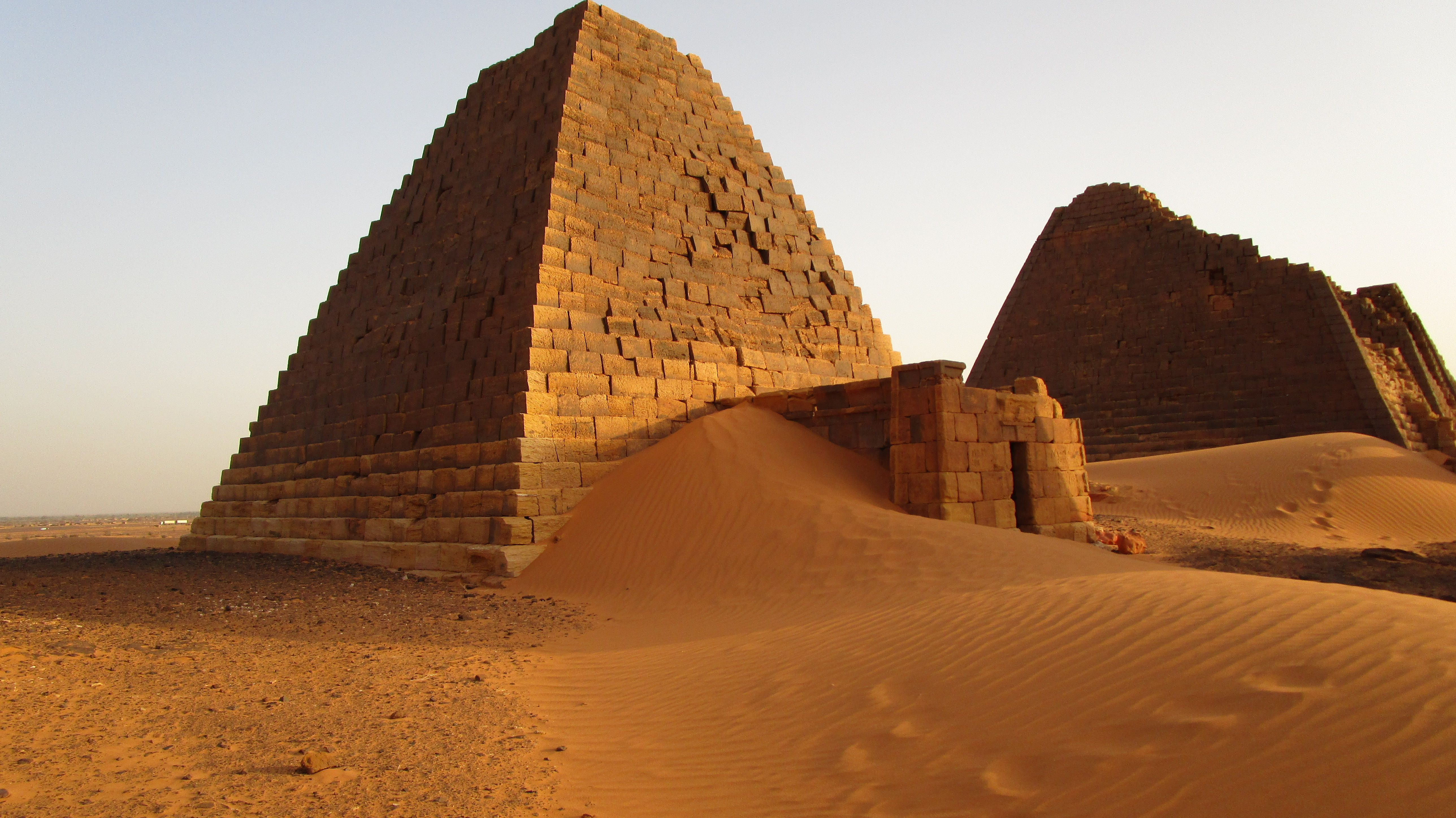 Sudan pyramids